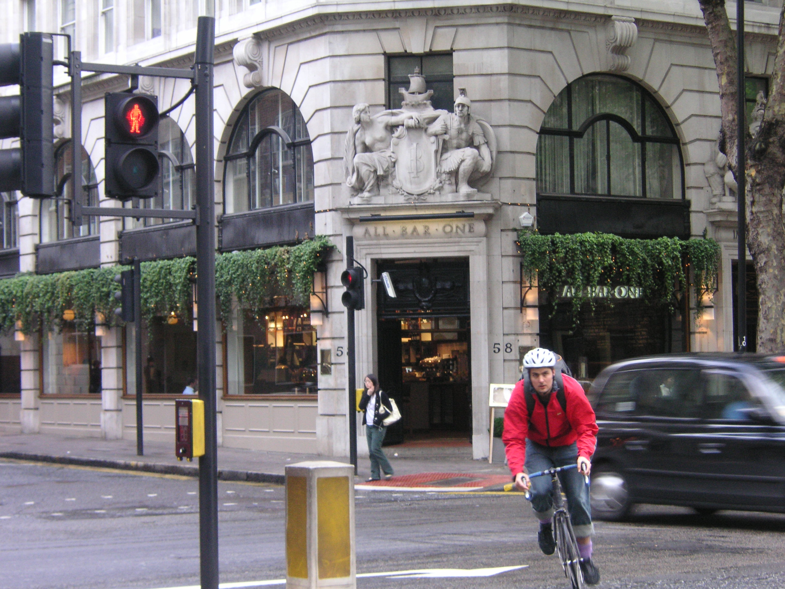 All Bar One, Holborn, London, England. Photo by KF, May 2007.